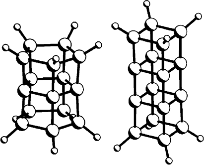 Three-dimensional views of bi[5]prismane (left) and tri[4]prismane